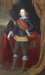 Prince Ferdinand of Austria, Governor of the Low Countries, brother of Philip IV of Spain